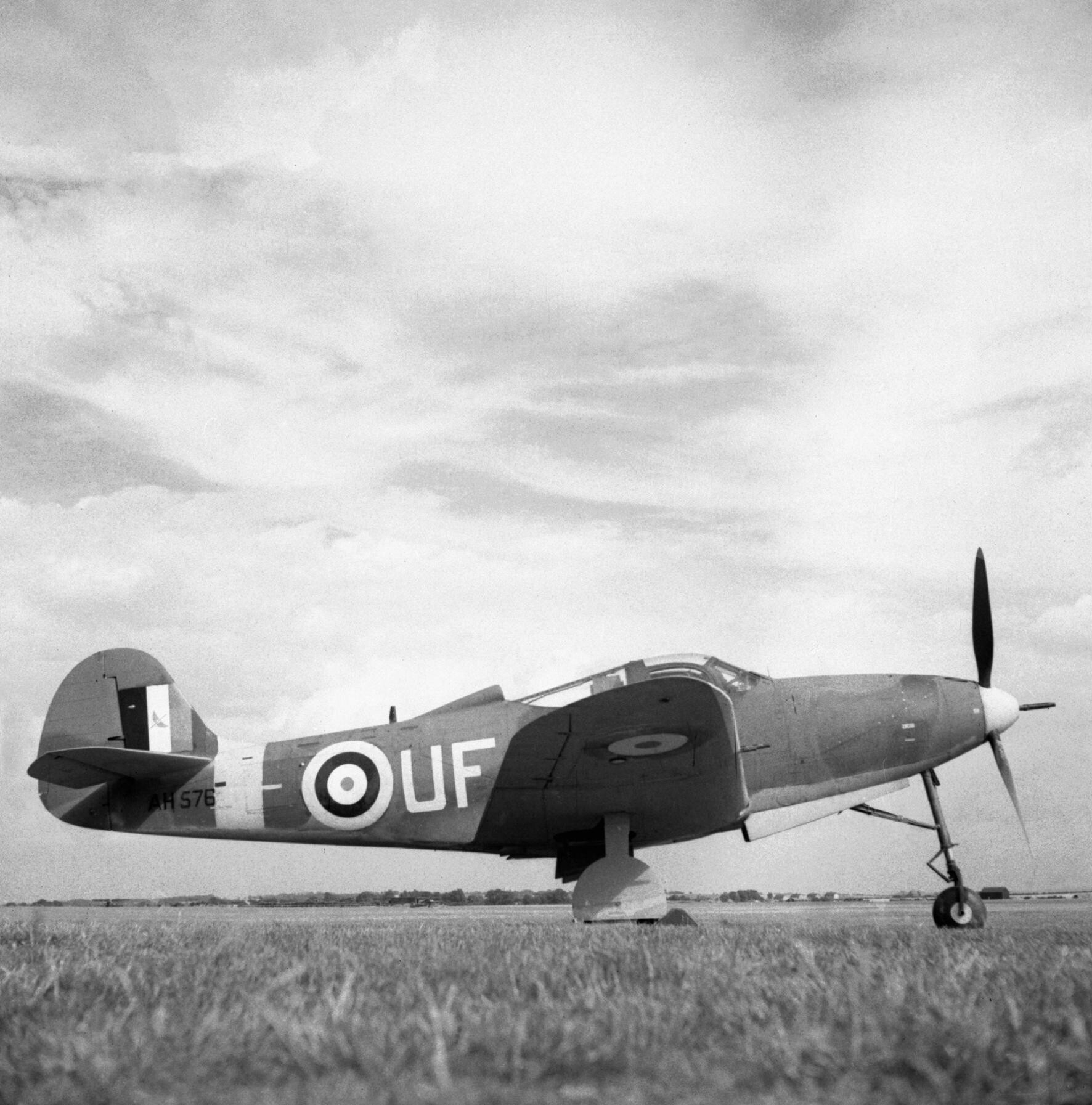 Bell Airacobra Mk I of No. 601 Squadron RAF at Duxford, Cambridgeshire, 21 August 1941. Airacobra Mark I, AH576 ‘UF’, of No. 601 Squadron RAF, on the ground at Duxford, Cambridgeshire. The aircraft was detached to Reid & Sigrist Ltd for trials on 7 September, following which it was to have been returned to the Squadron (hence the proprietary application of the unit code letters and squadron badge on the fin), but was written off on 5 October 1941.